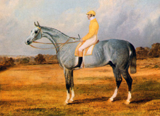 Painting of the thoroughbred racehorse Grey Momus. Winner of the 2000 Guineas. Unknown artist. Circa 1838, so author has certainly been dead for 100+ years.